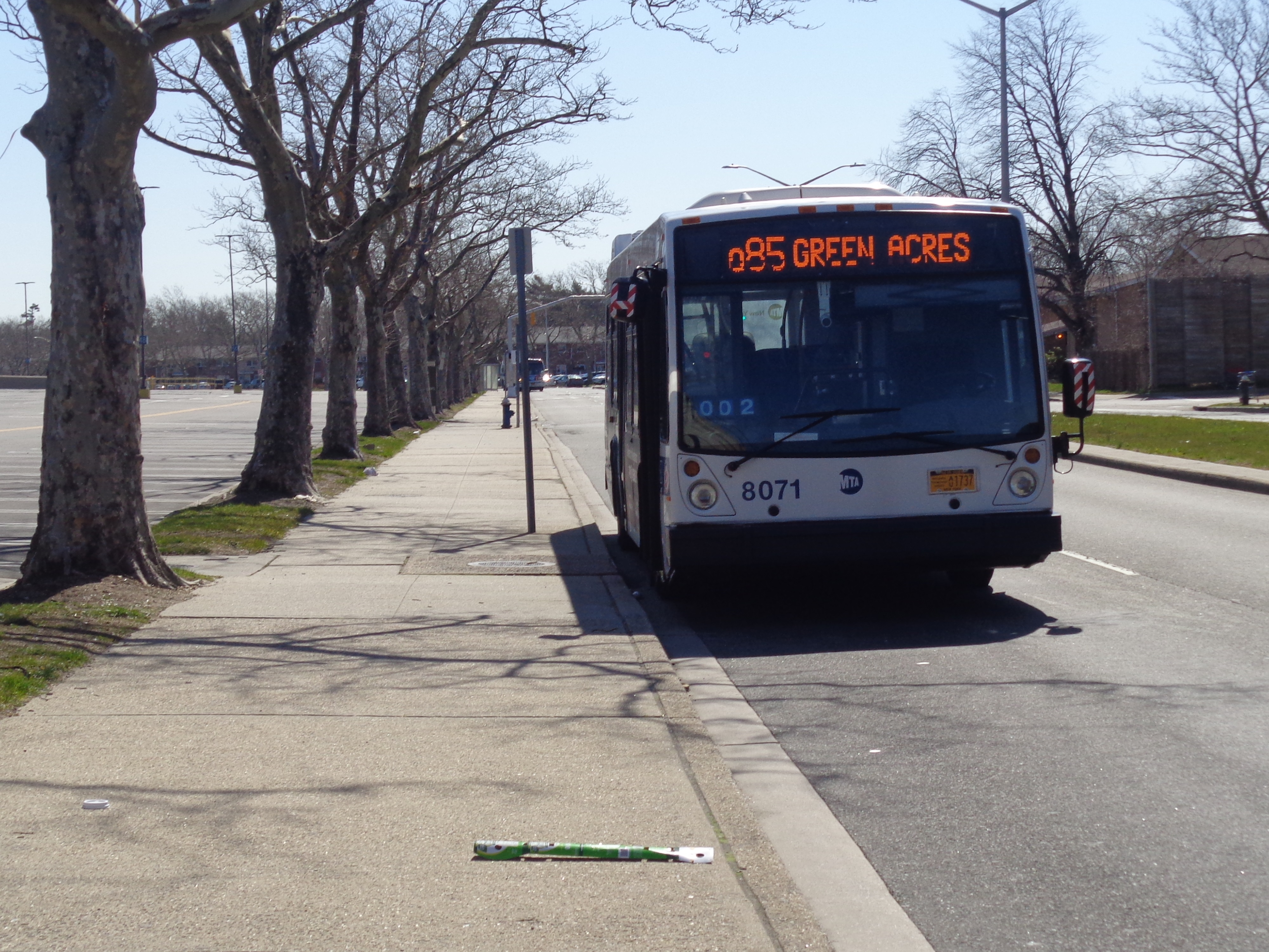 A terminated Q85 bus at Green Acres Mall in Valley Stream, Nassau County.